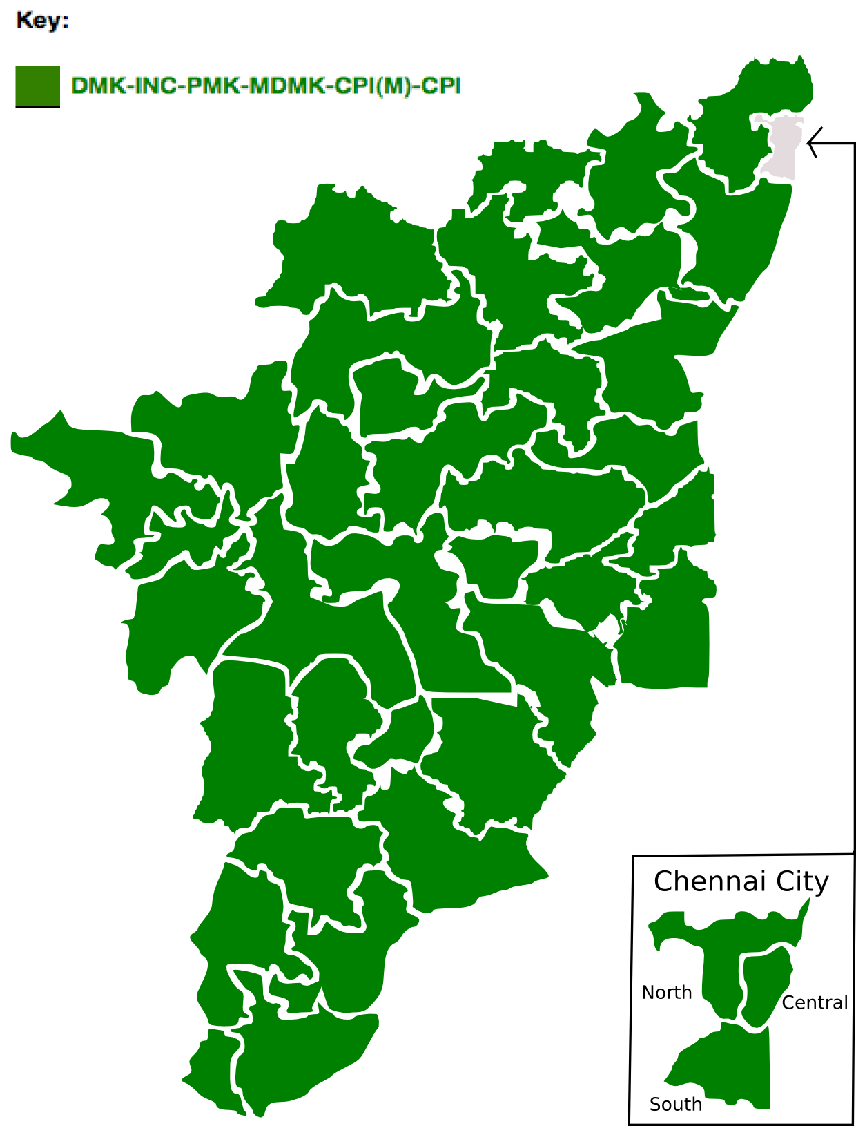 2004 Lok Sabha Election map for Tamil Nadu. Map is based on ECI drawn map. Results are based on ECI website.